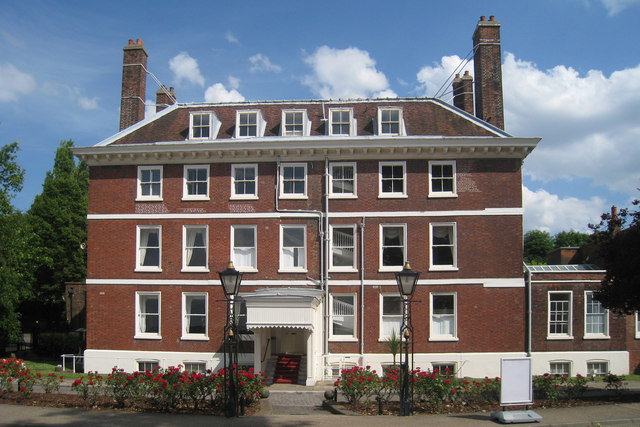 Commissioners House, Main Gate Road, Chatham Dockyard, Kent Grade I listed